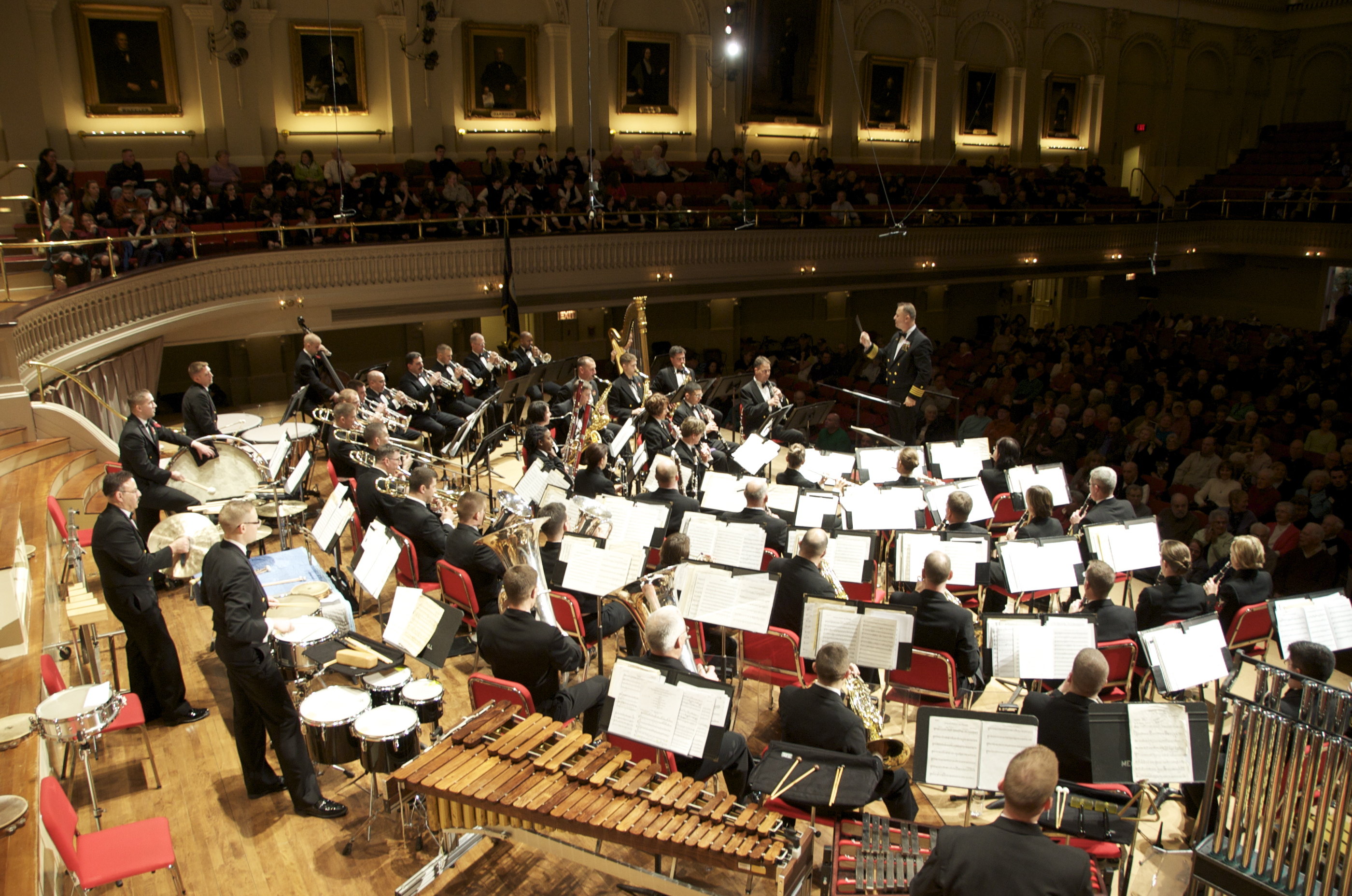 WORCESTER, Mass. (March 16, 2011) Capt. Brian Walden, commanding officer and leader of the U.S. Navy Band, leads the Concert Band during a performance at Mechanics Hall in Worcester, Mass. The performance was part of the band's national tour and was broadcast live on WICM 90.5 FM for the WICN Public Radio and Mechanics Hall Brown Bag Concert Series. (U.S. Navy photo by Musician 1st Class Shana E. Catandella/Released)